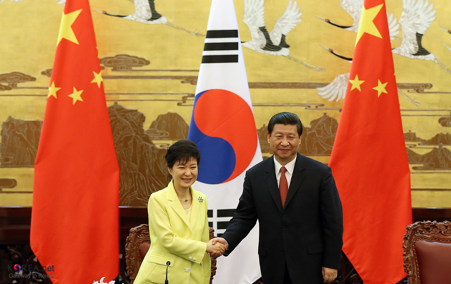 President Park Geun-hye (left) and Chinese President Xi Jinping shake hands after holding a joint press conference on June 27 at the Great Hall of the People in central Beijing. 2013. 06. 27. Photo=Cheong Wa Dae (Related Article) ‘President Park holds 1st Korea-China summit in Beijing’ Presidential trip to reshape future vision of Seoul-Beijing ties 박근혜 대통령이 27일 시진핑 중국 국가주석과 한-중 공동기자회견을 마친 뒤 악수하고 있다. 베이징, 중국 사진=청와대 人民大会堂东门外广场举办欢迎仪式迎接韩国总统朴槿惠